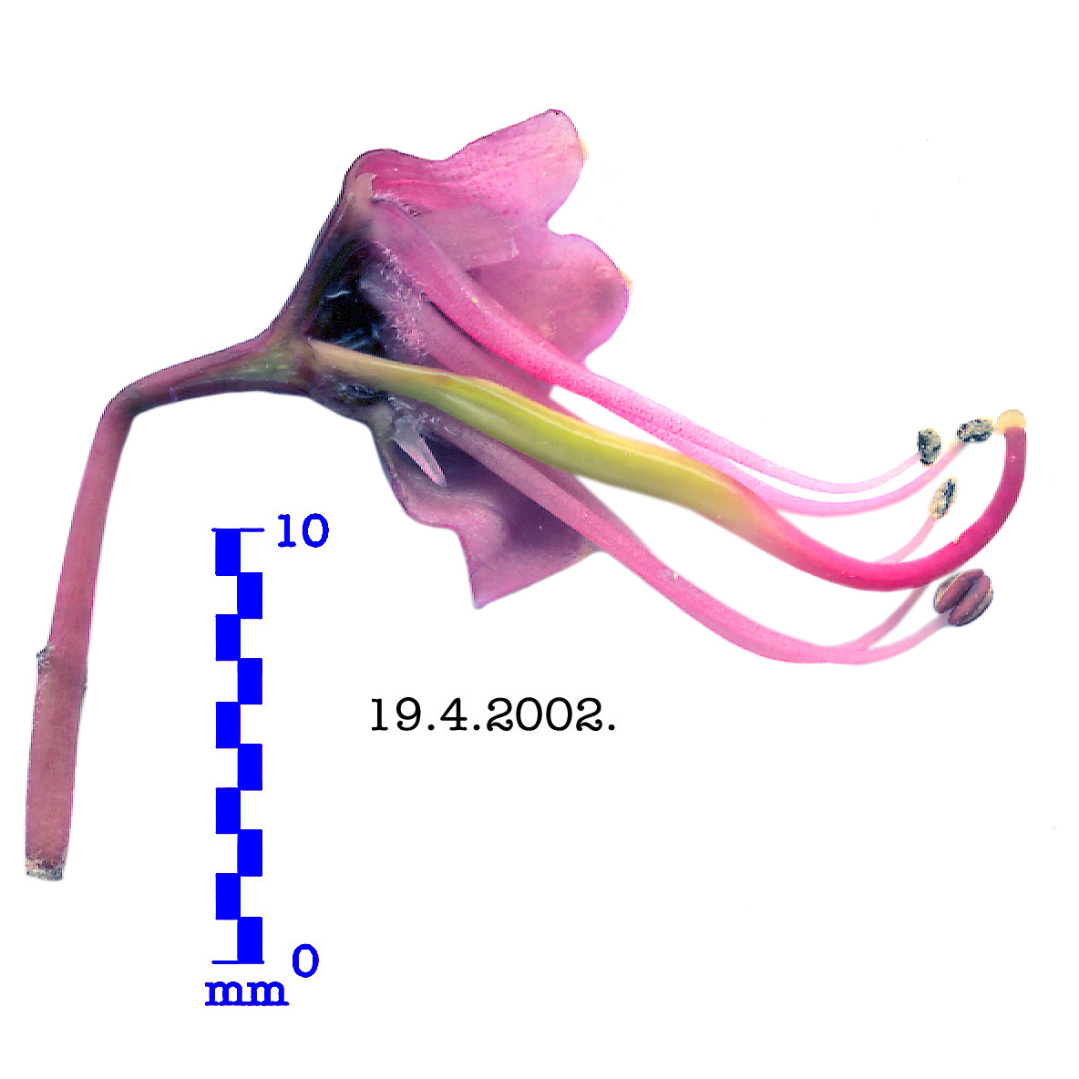 Cercis siliquastrum flower without corolla (longitudinal section)